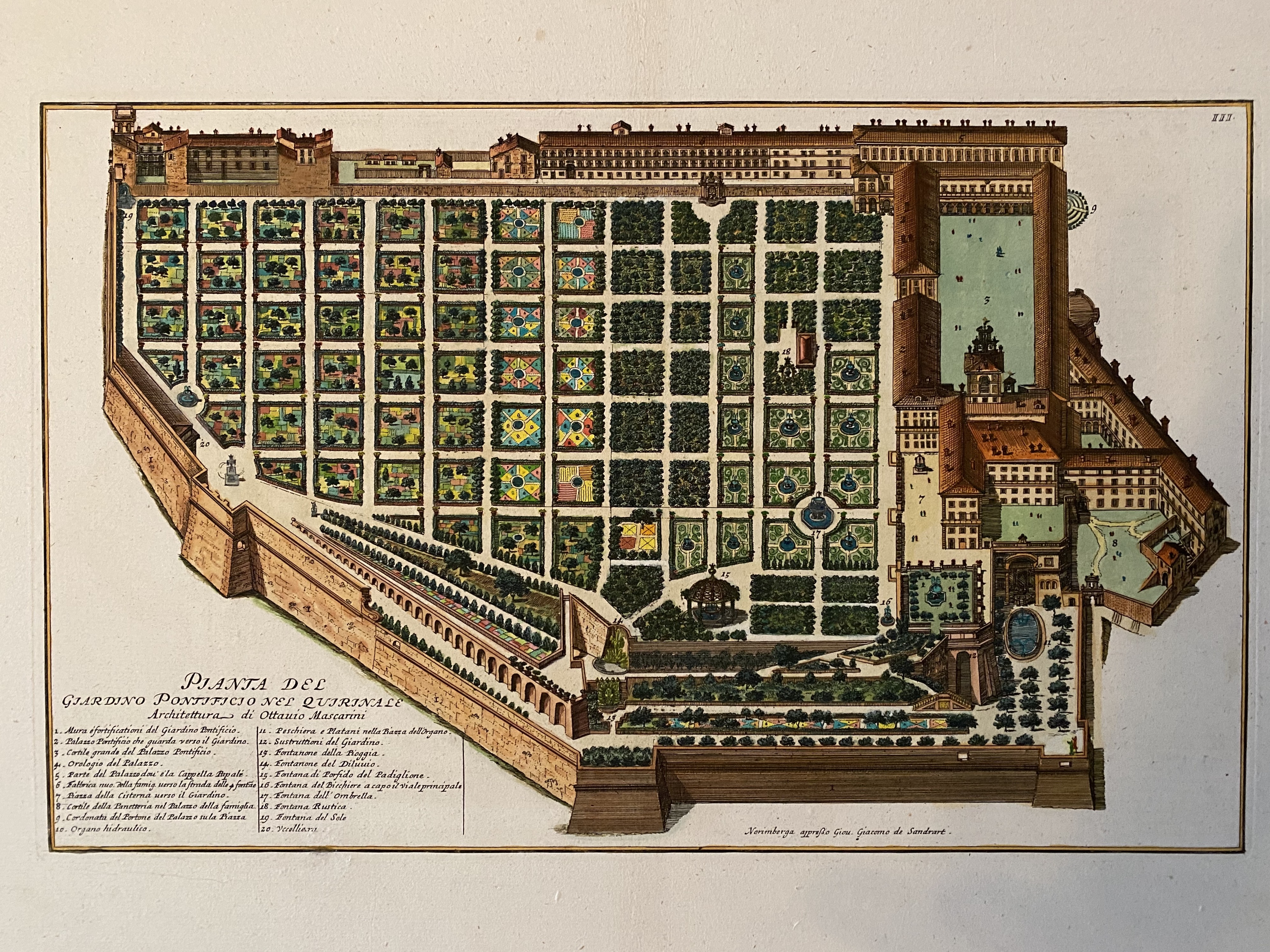 A view of the Quirinale palace and papal gardens in Rome. It was engraved by Giovanni Battista Falda in 1683